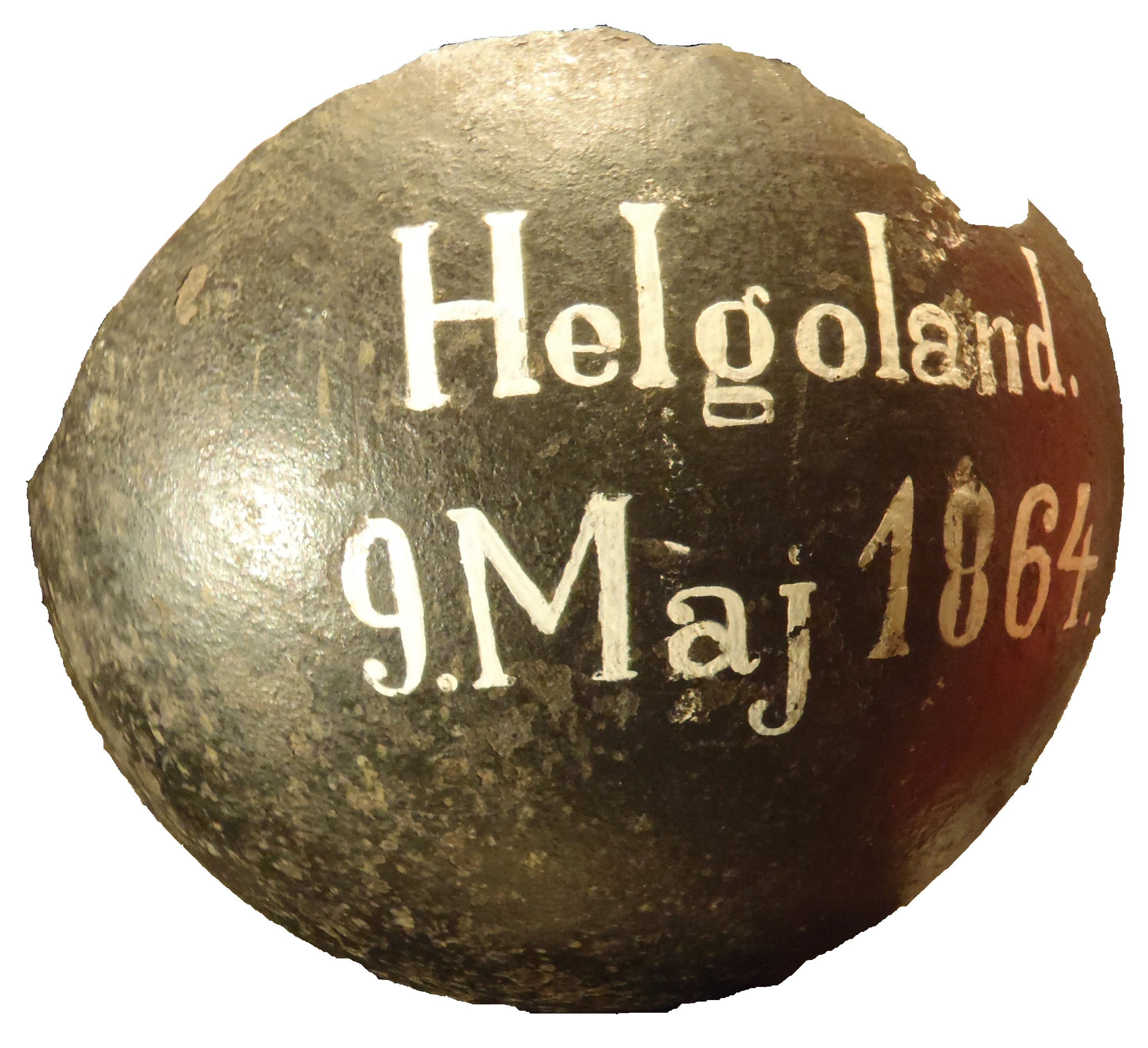 Cannon ball with the date of the Battle of Heligoland om 1864. From an exhibition at Tøjhus Museum, Copenhagen.